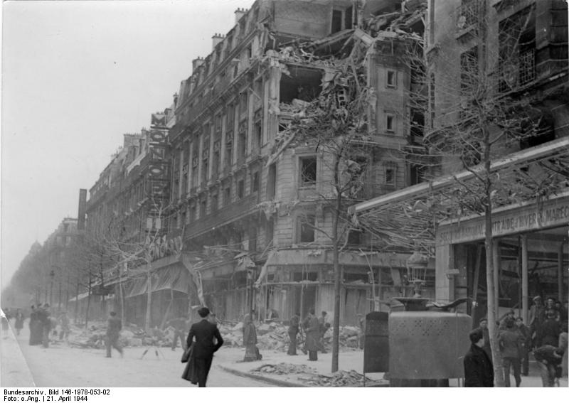 25853, Bd Barbés, Paris (18 arr.), 21.4.44, R.H. D.N.P. Information added by Wikimedia users.